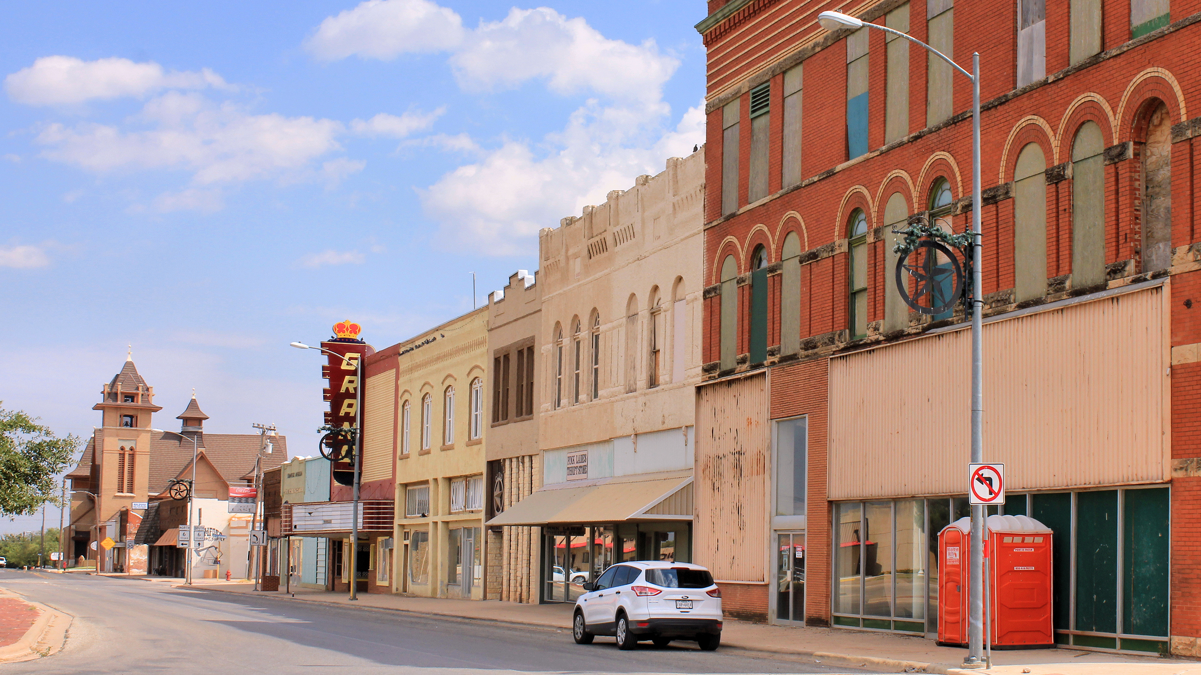 Downtown Stamford, Texas in 2015